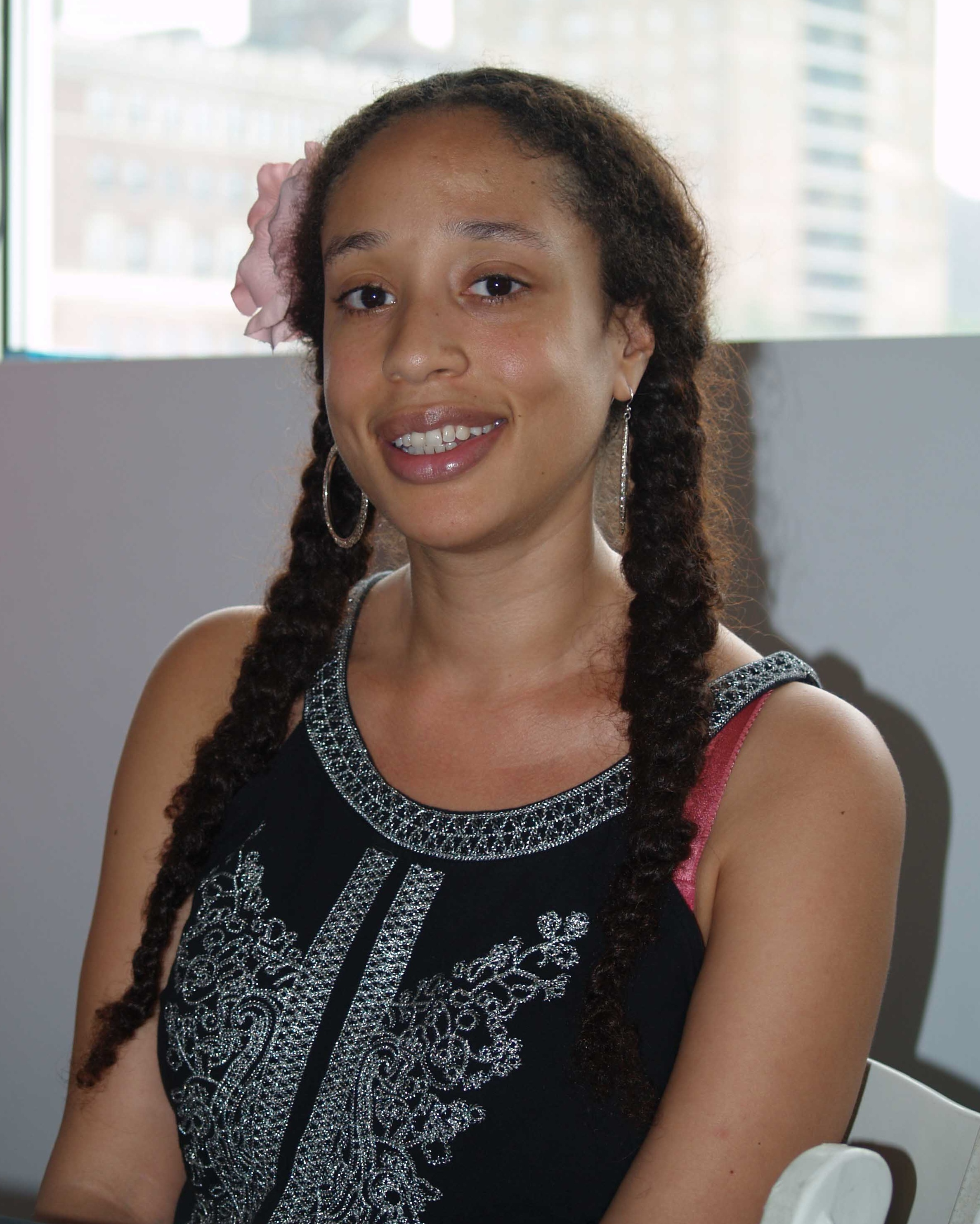 Novelist Alaya Johnson during the June 30, 2013 Singularity & Co.: Storytelling Across Genres panel discussion at the 2013 Wizard World New York Experience Comic Con, at Pier 36 in Manhatan. This photo was created by Luigi Novi. It is not in the public domain, and use of this file outside of the licensing terms is a copyright violation.